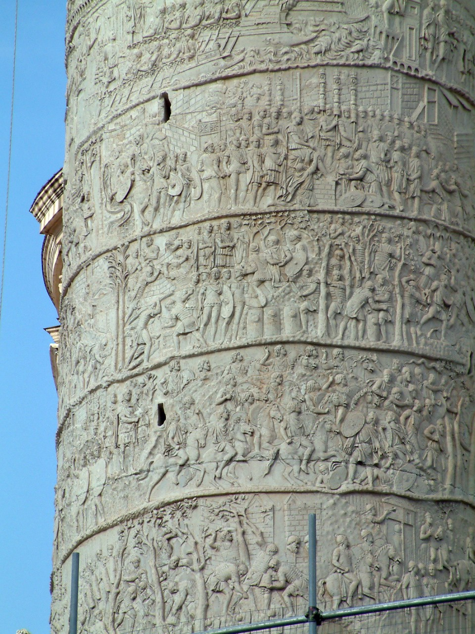 Trajan's Column, fragment